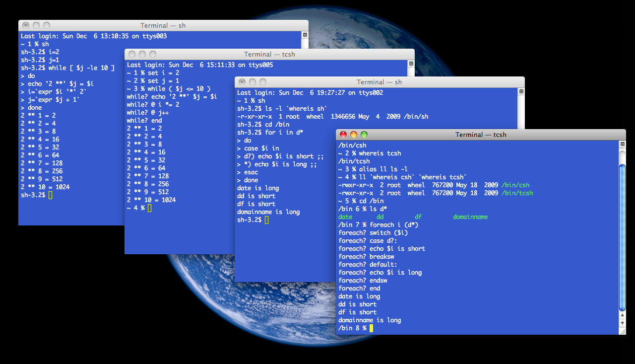 Shows the tcsh and sh Unix shells running side-by-side on a Mac OSX desktop.